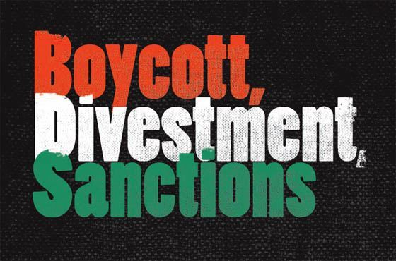 中文（中国大陆）: A logo of BDS movement